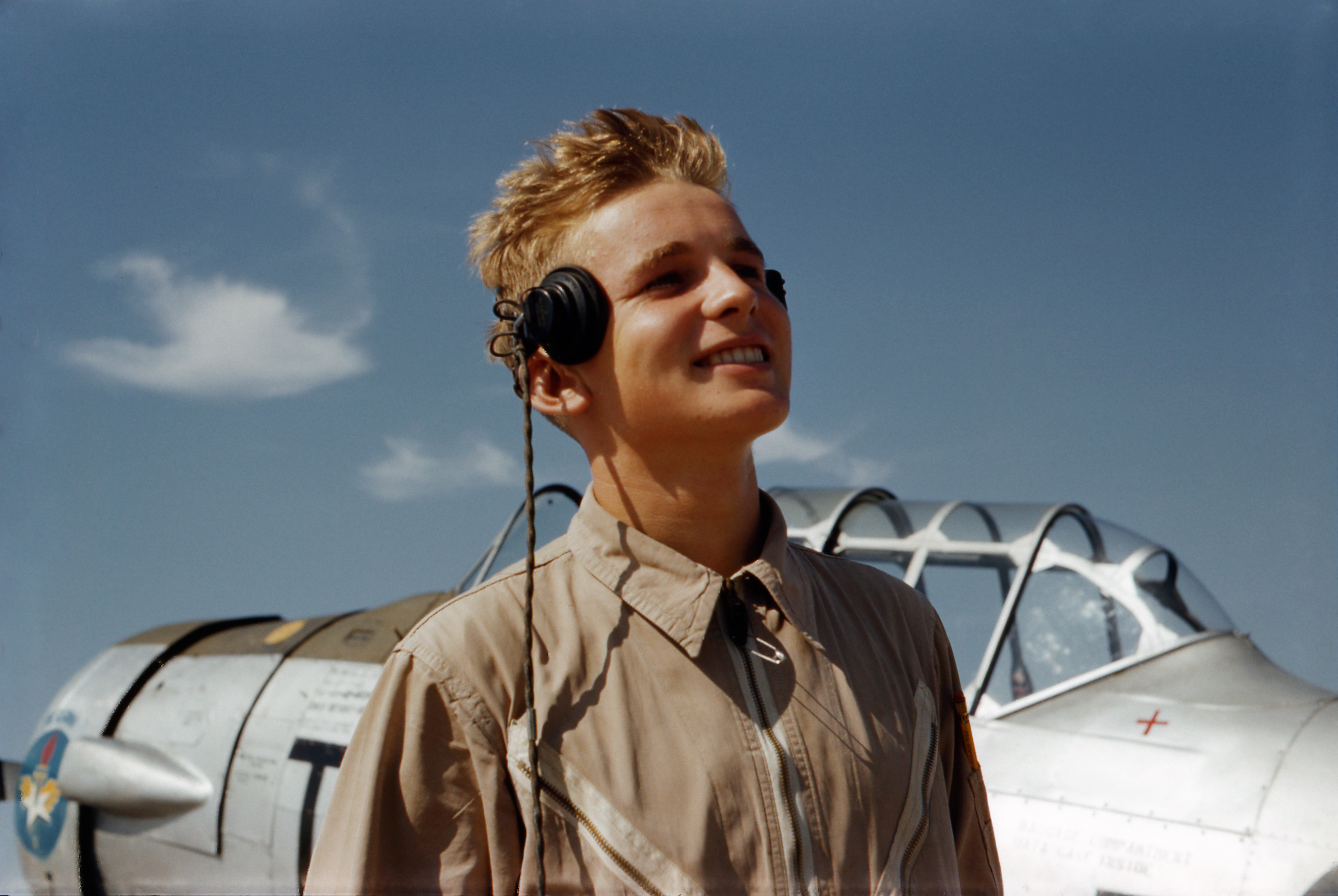 Jens Holter på flyskole i USA en gang mellom mai 1951 og juni 1952